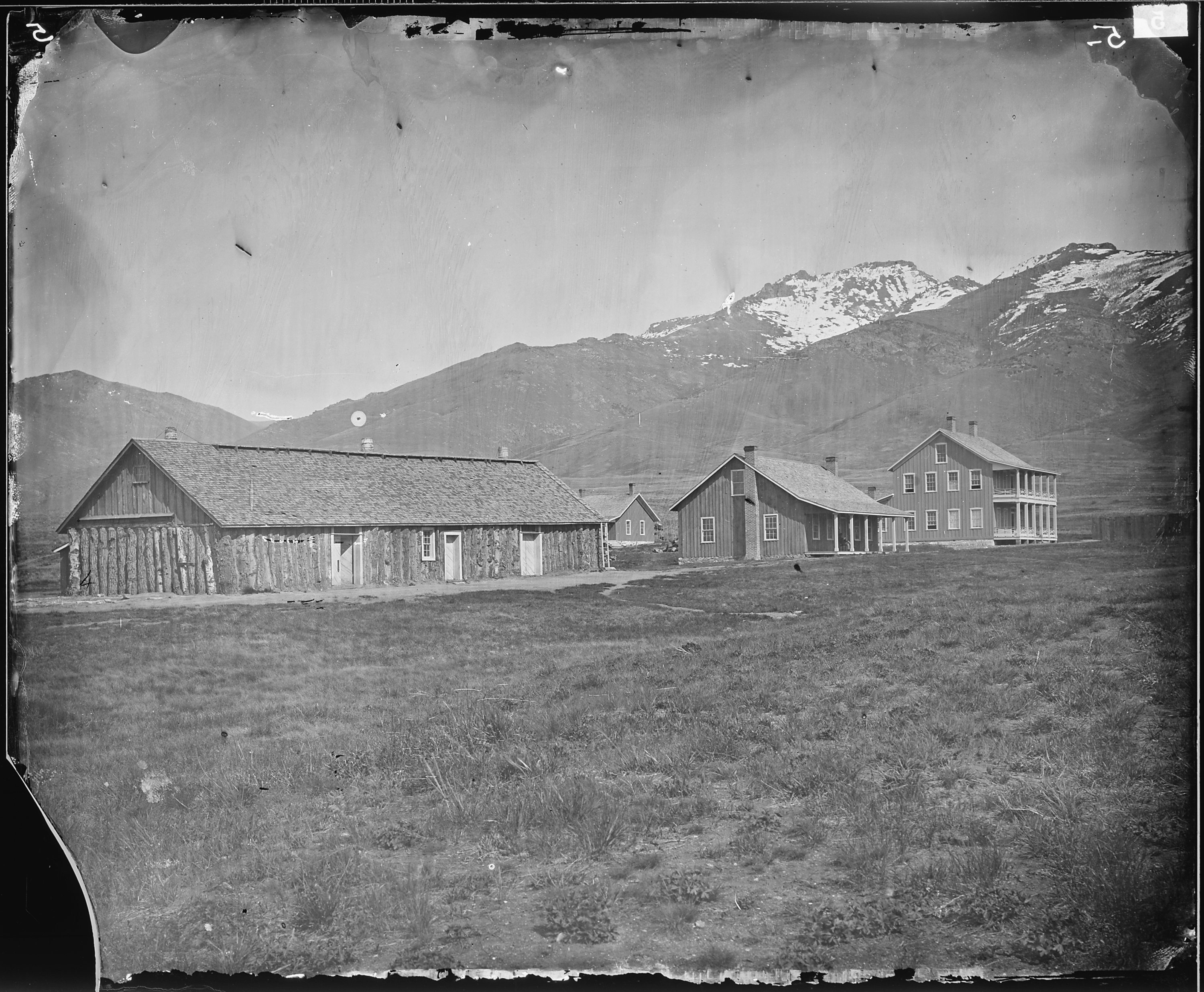 General notes: Fort Halleck (1879-1886; U. S. Army . First established as Camp Halleck in (1867-1879), to protect the California Trail and the construction of the Central Pacific Railroad. Present day Halleck, Elko County, Nevada.